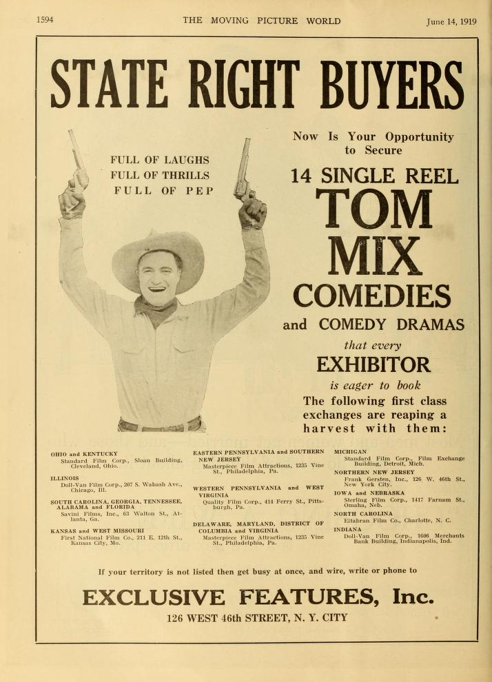 Advertisement for Tom Mix comedies. Moving Picture World, June 1919